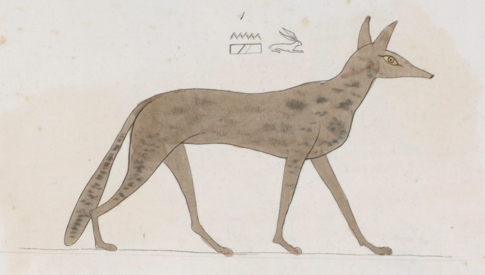 Varie specie di animali quadrupedi.